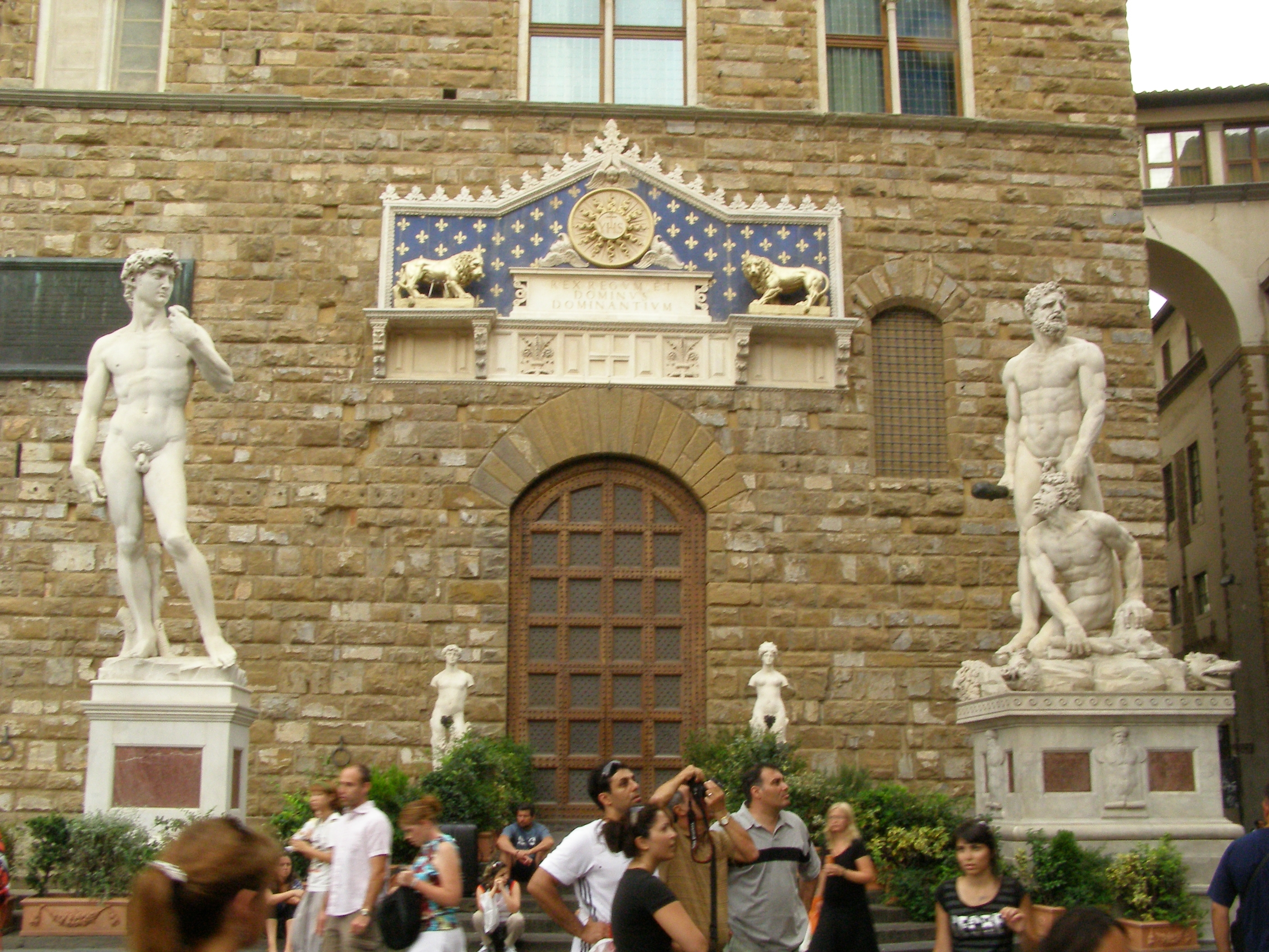 Florence - Palazzo Vecchio